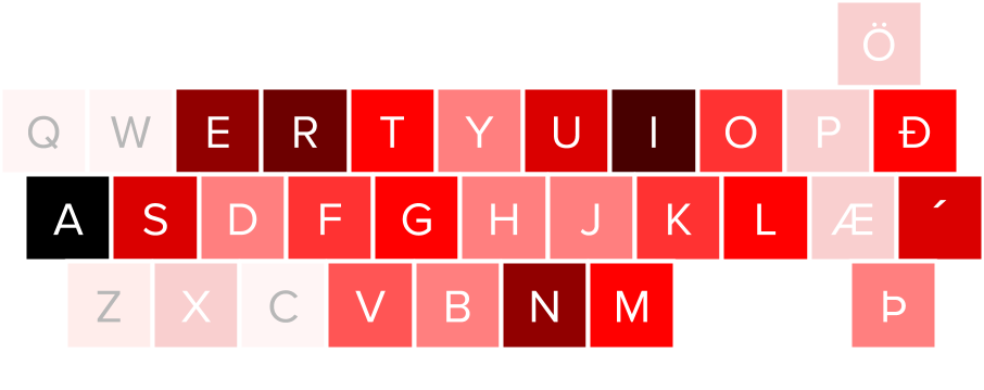 Keys on a standard Icelandic QWERTY keyboard layout coloured by letter frequency.